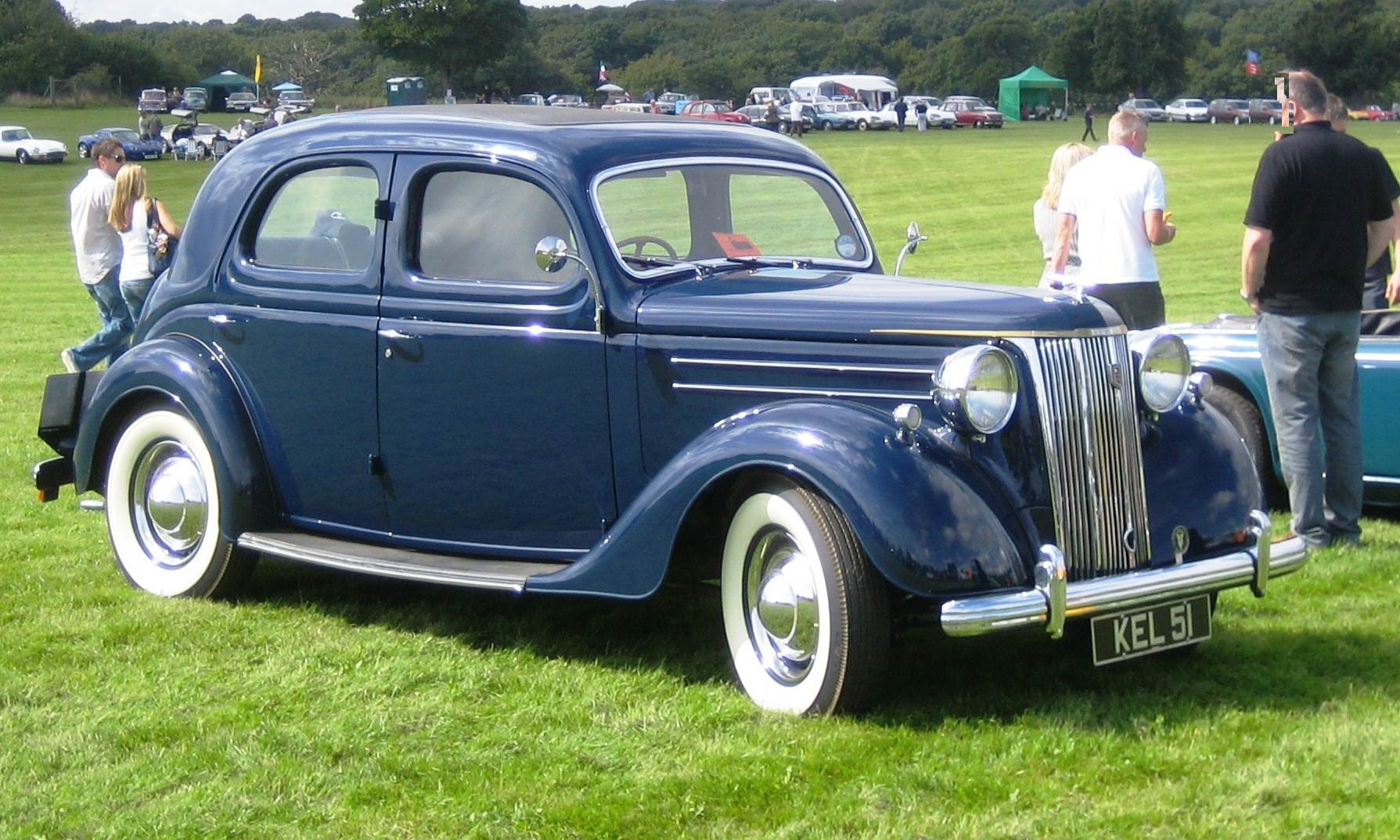 Ford Pilot at Classic Car Show in Hertfordshire, looking beautifully maintained / restored.